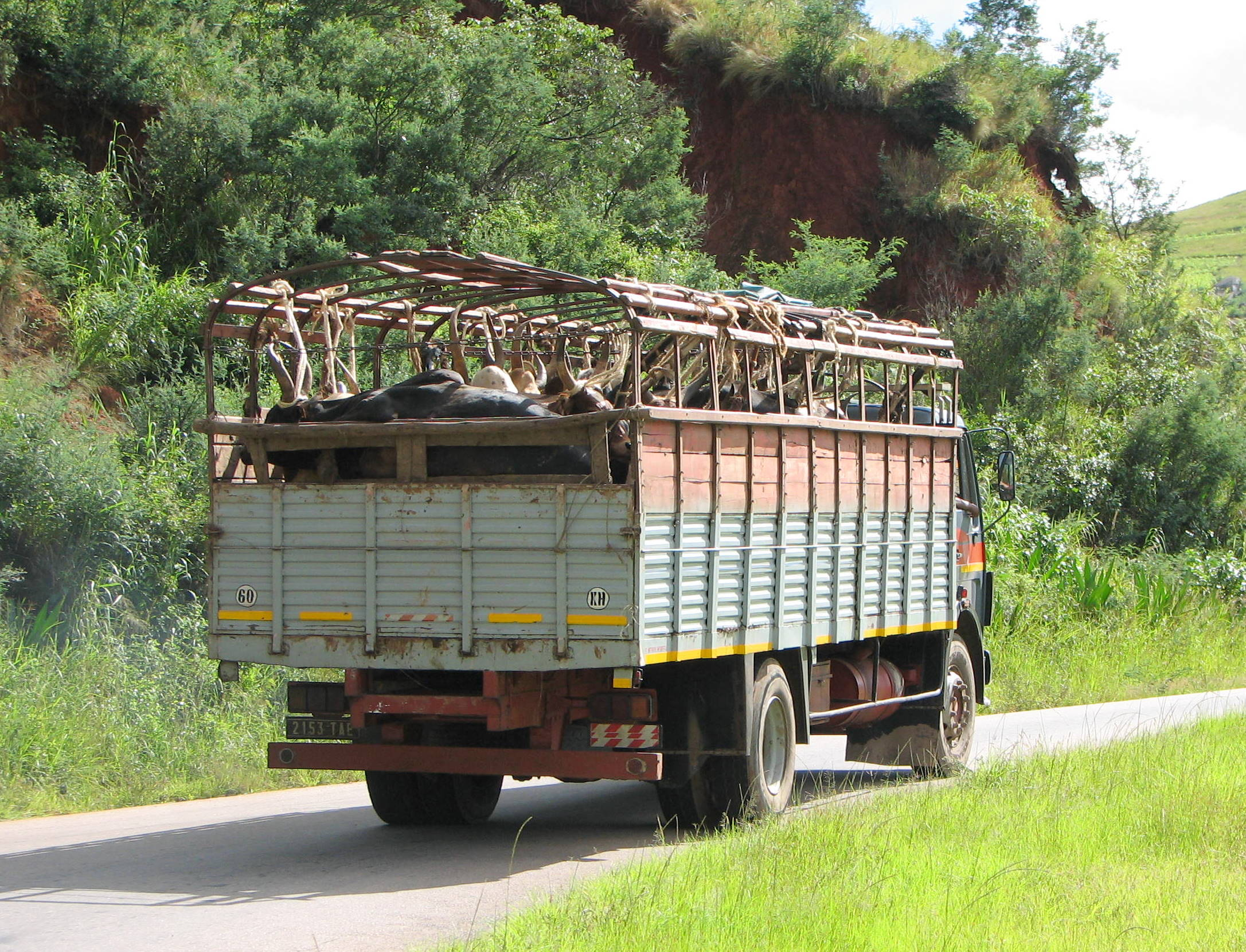 Transport of zebus between Ambalavao and Fianarantsoa, Madagascar